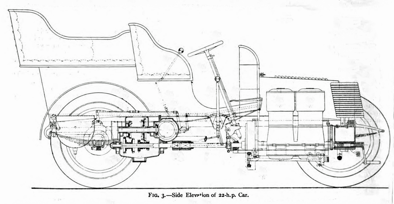 1902 Daimler 22 hp side elevation